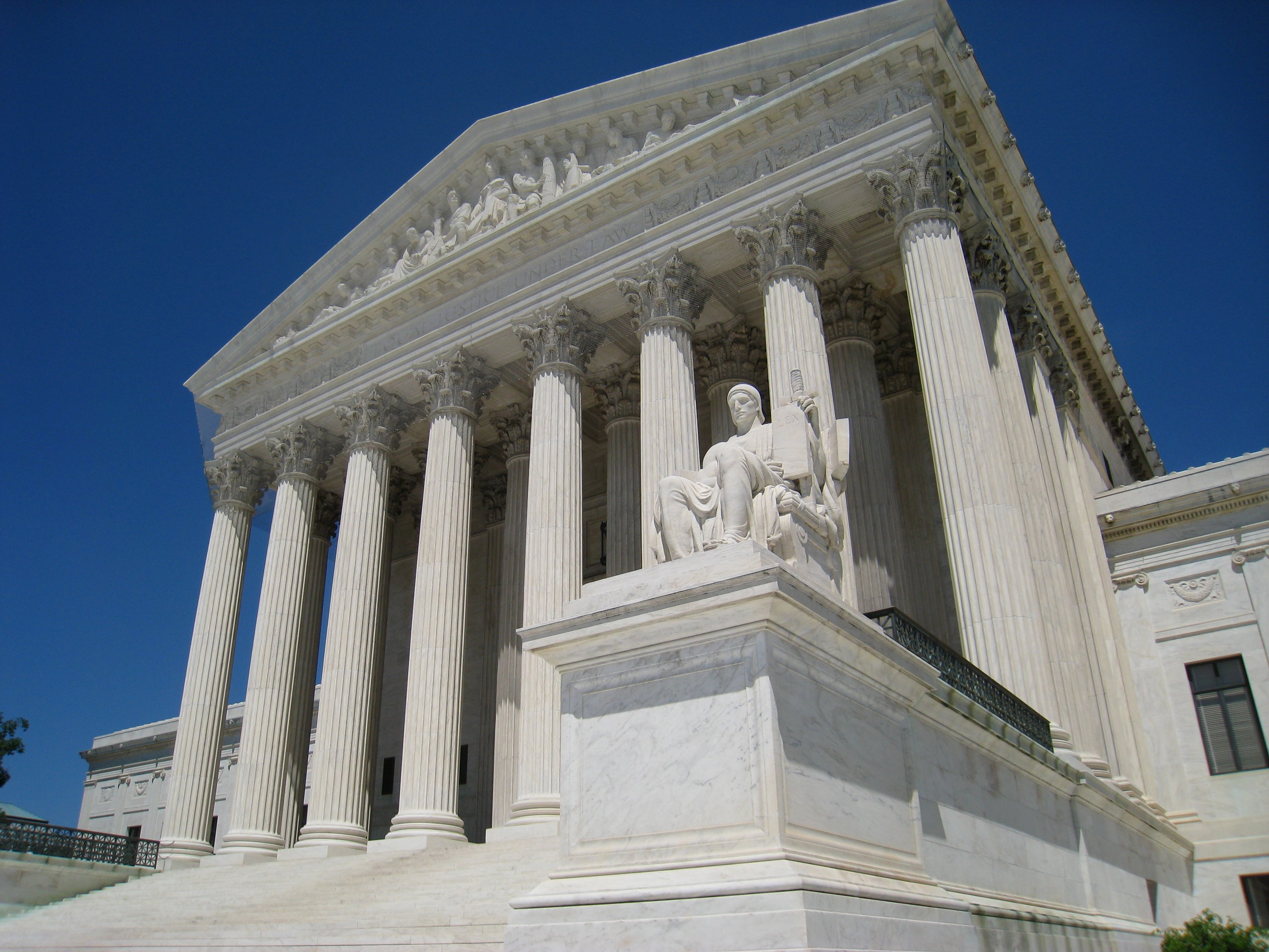 Supreme Court building, Washington, DC, USA. Front facade.